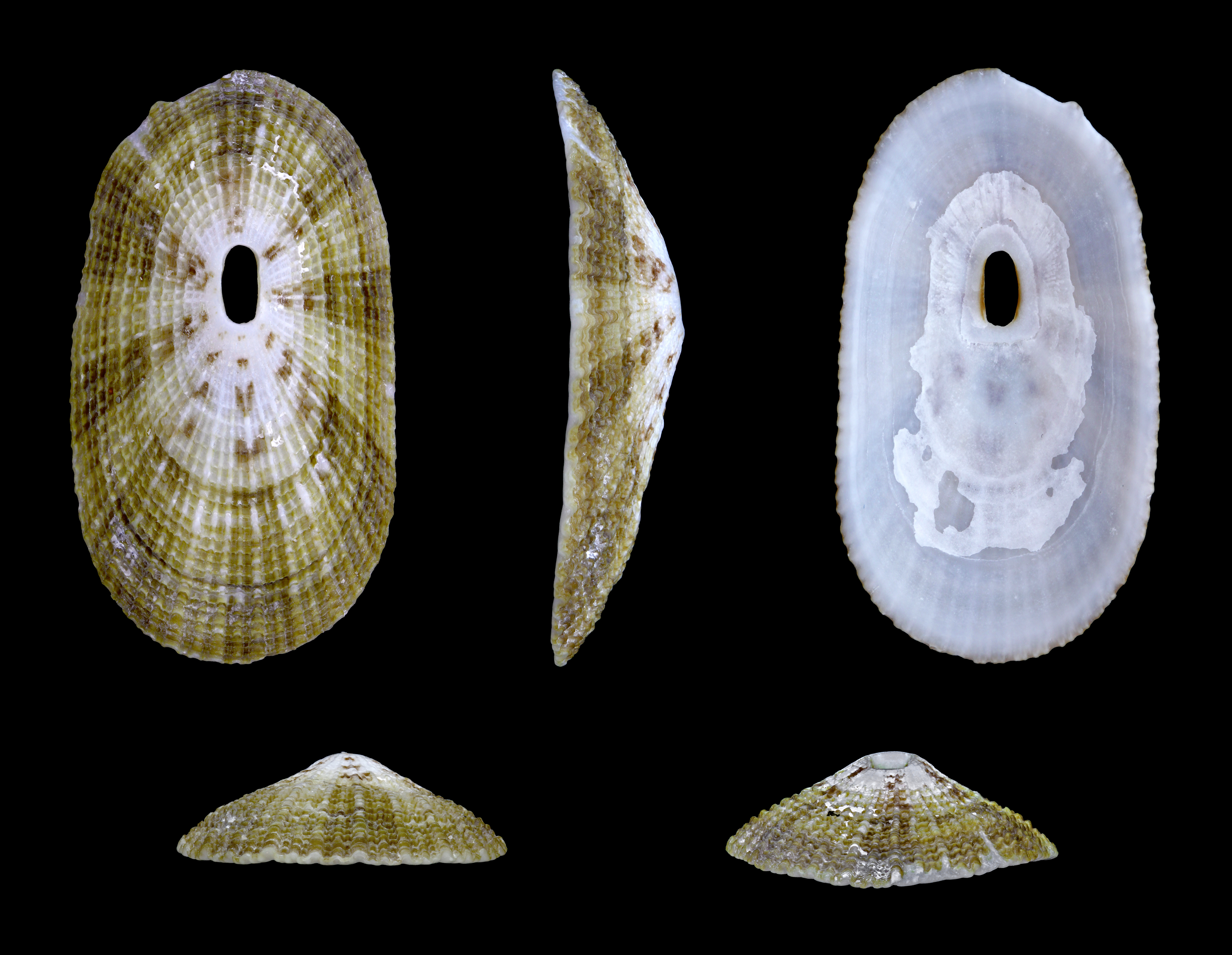 Shield Fleshy Limpet; Length 3.4 cm; Originating from Florida, USA; Shell of own collection, therefore not geocoded.